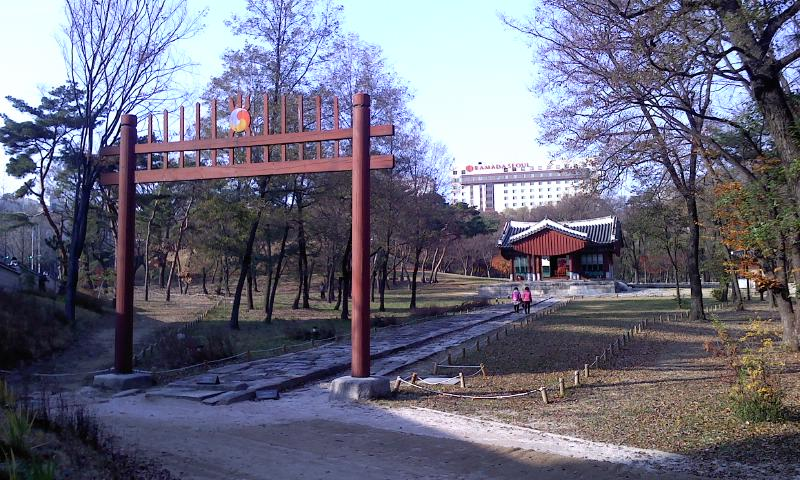 Seolleung